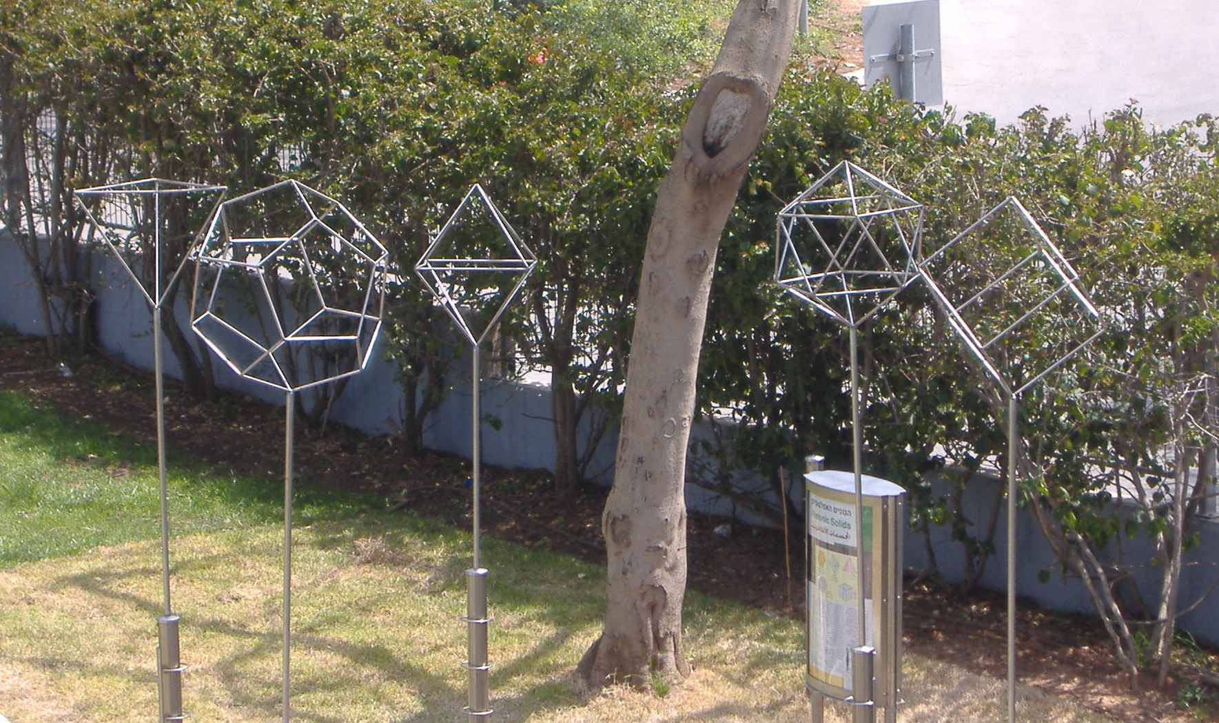 Models of the five platonic bodies, in the science garden, Weizmann Institute of Science, Israel.